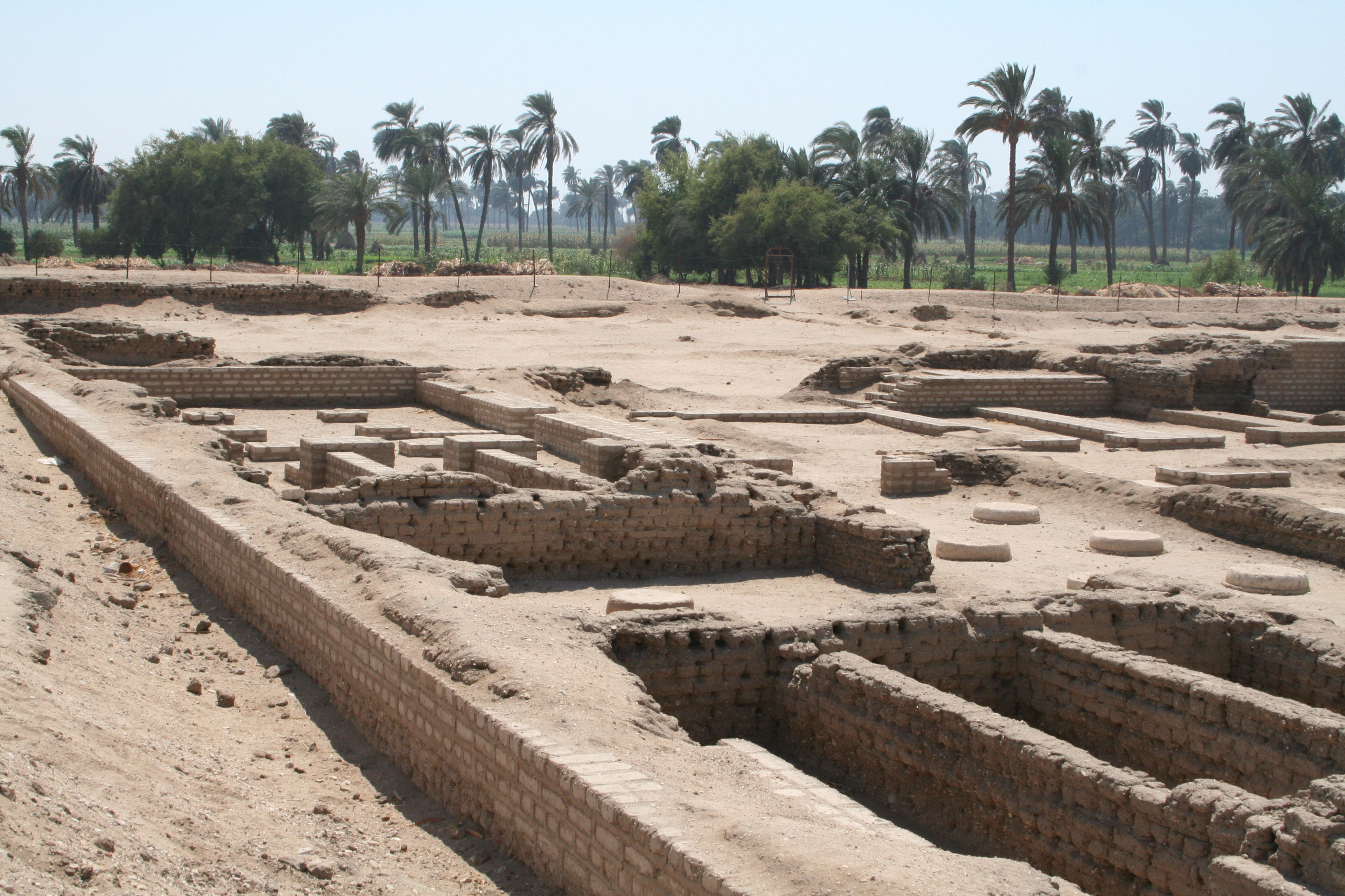 North Palace at Tell el-Amarna